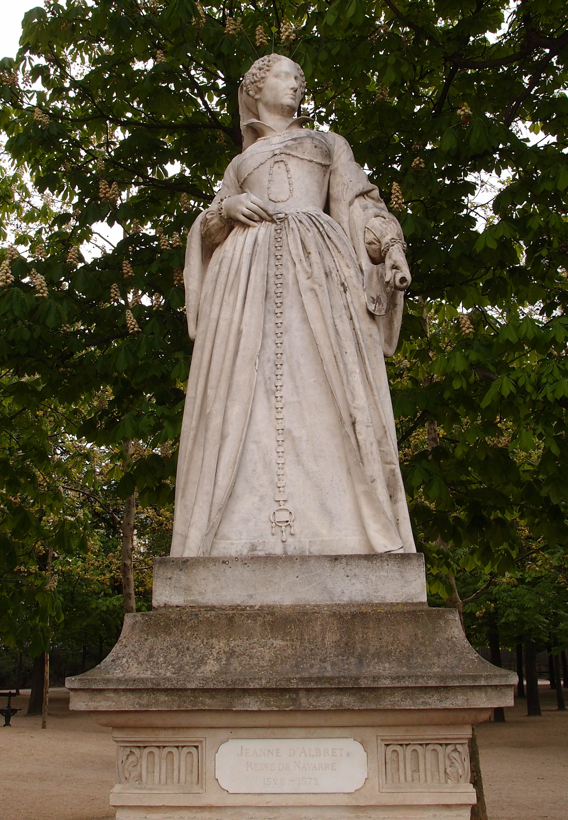 Statue of Jeanne d'Albret in Paris, Jardin du Luxembourg.